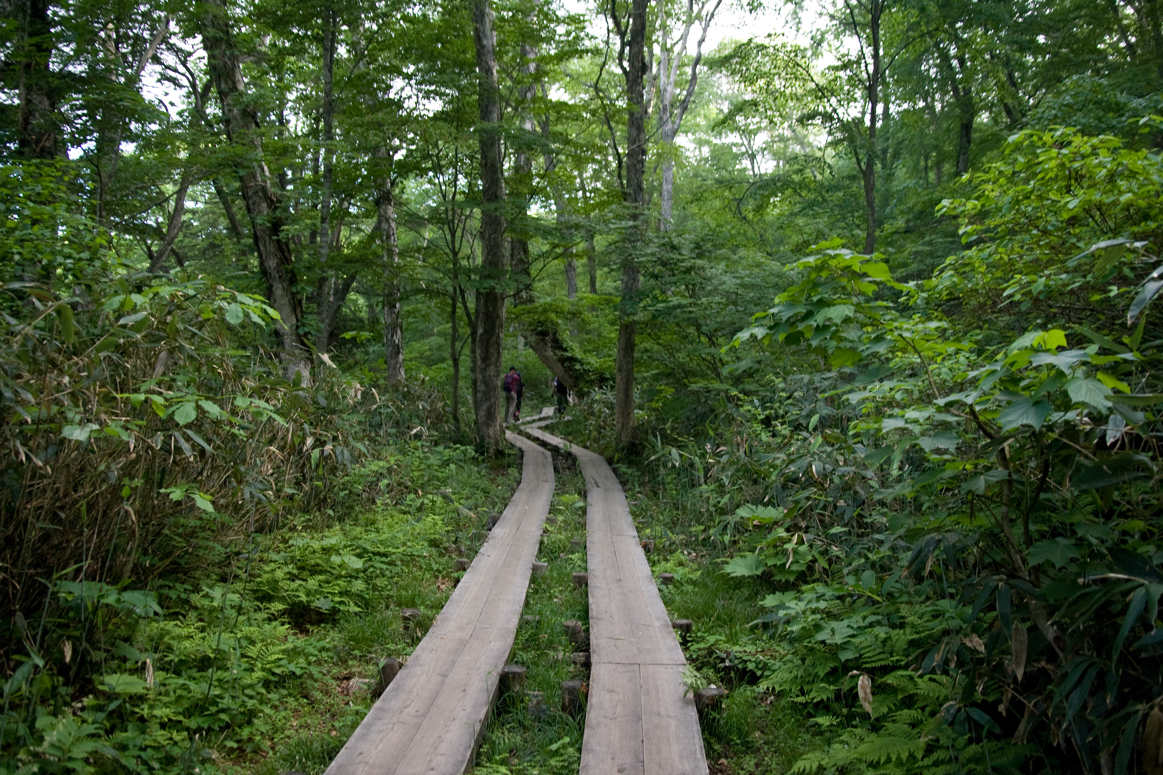 The wood trail to Ozegahara, Katashina Vill., Gunma Pref., Japan